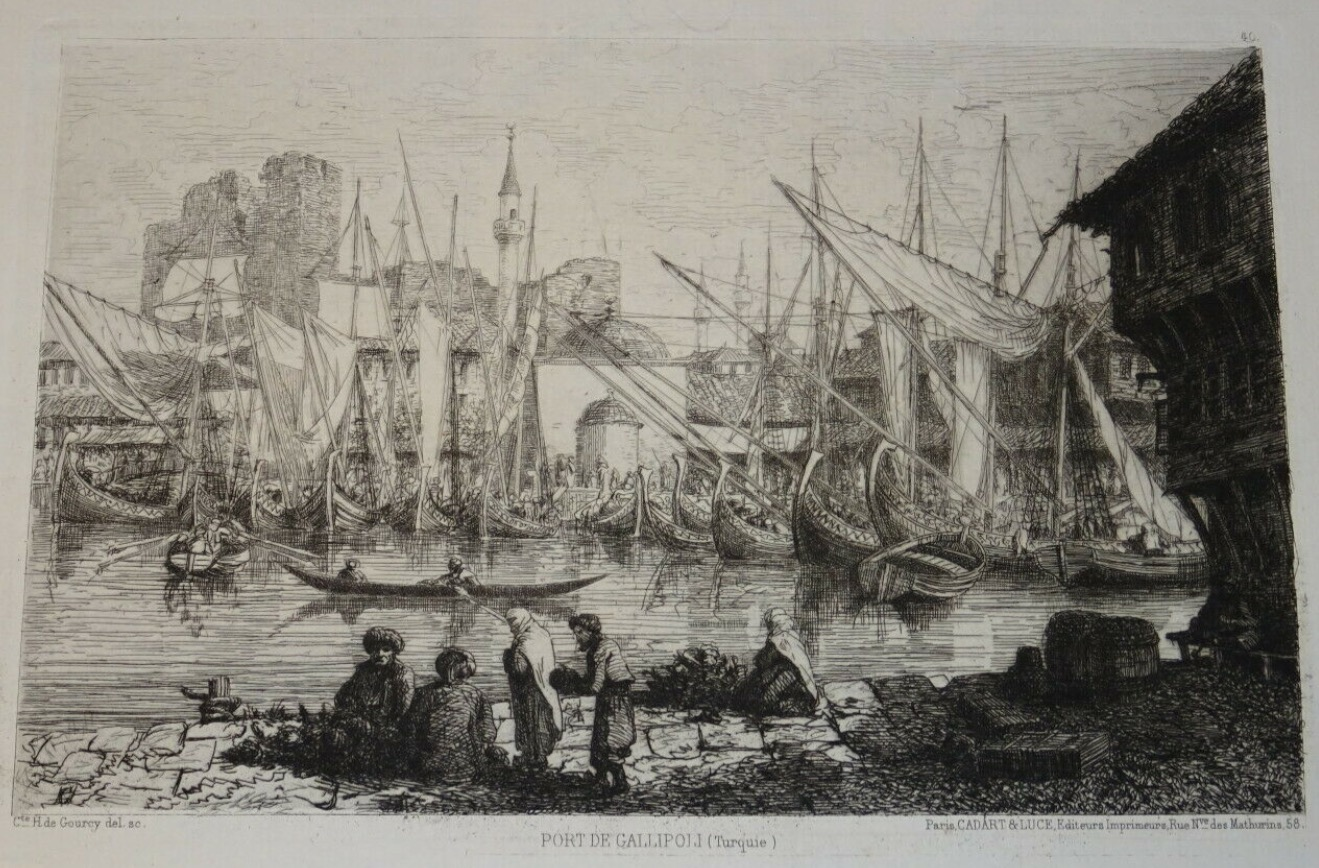 Etching of port of Gallipoli